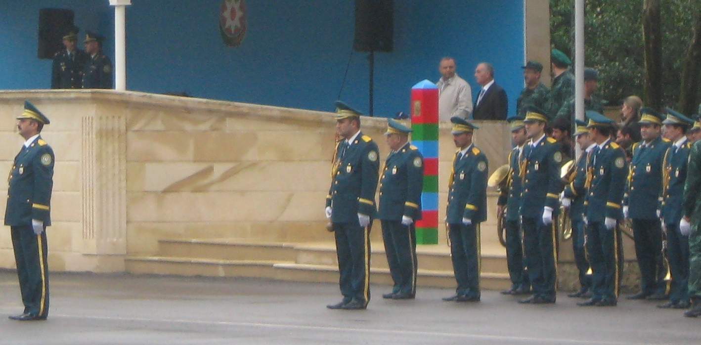 General-mayor Mahammad Abbasquliyev on Oath of enlistment of border guards. Geytepe, Azerbaijan